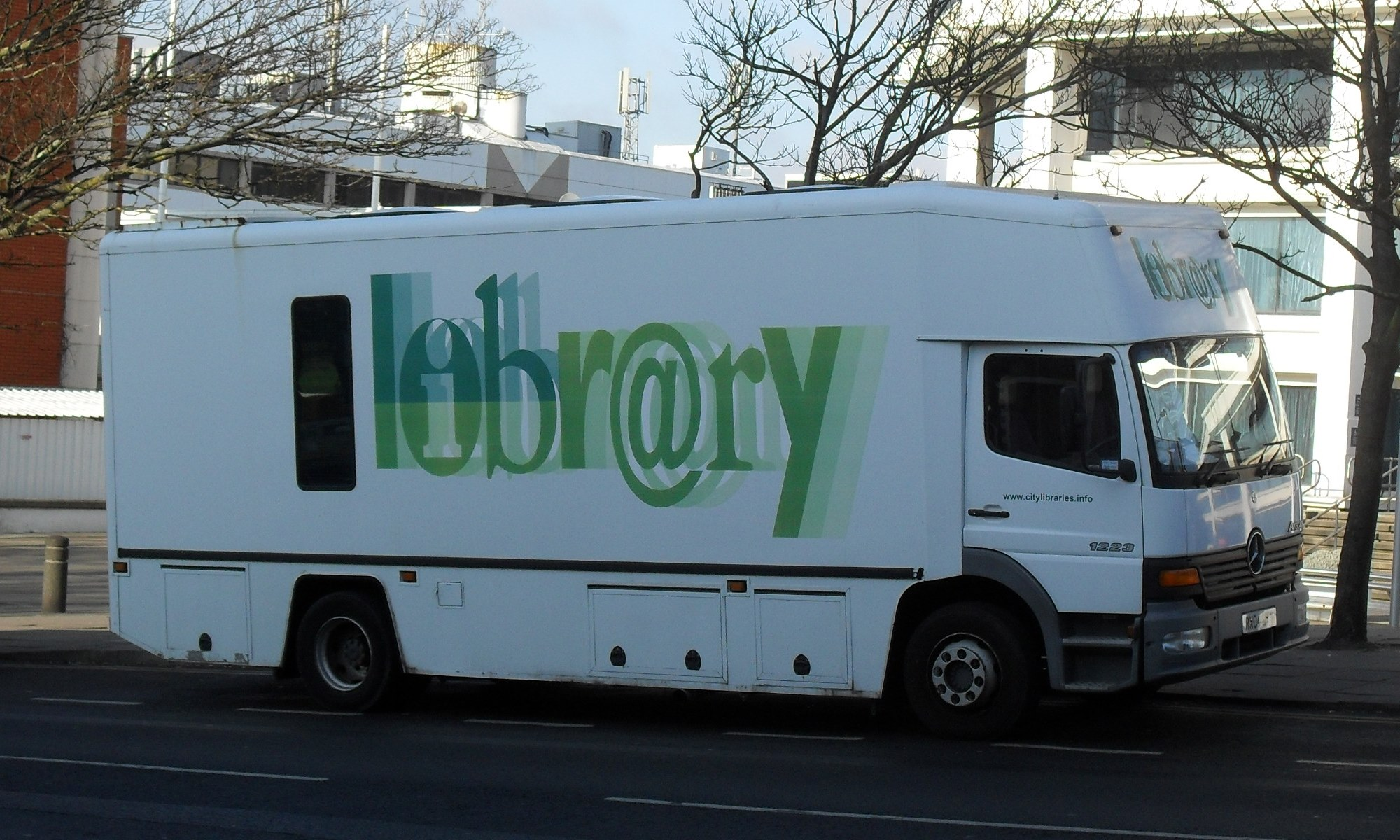 The Brighton and Hove Mobile Library vehicle parked in Edward Street, Brighton, outside Amex House.